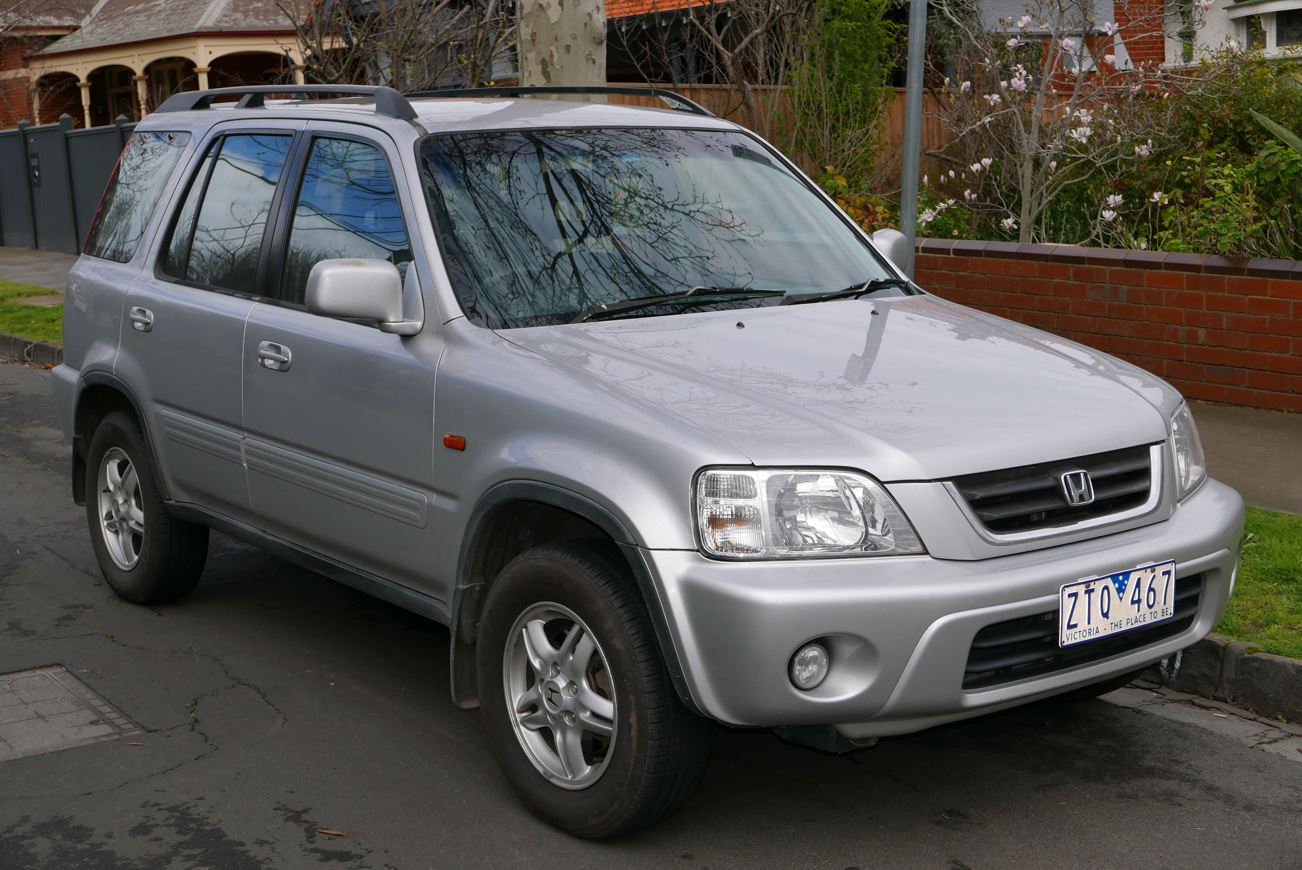 1999 Honda CR-V Sport wagon. Photographed in Hawthorn, Victoria, Australia. Vehicle registration enquiry results Jurisdiction Victoria Registration ZTQ467 Chassis code JHLRD1850XC247446 Engine code B20B81010695 Compliance date 1999-11 Year of manufacture 1999